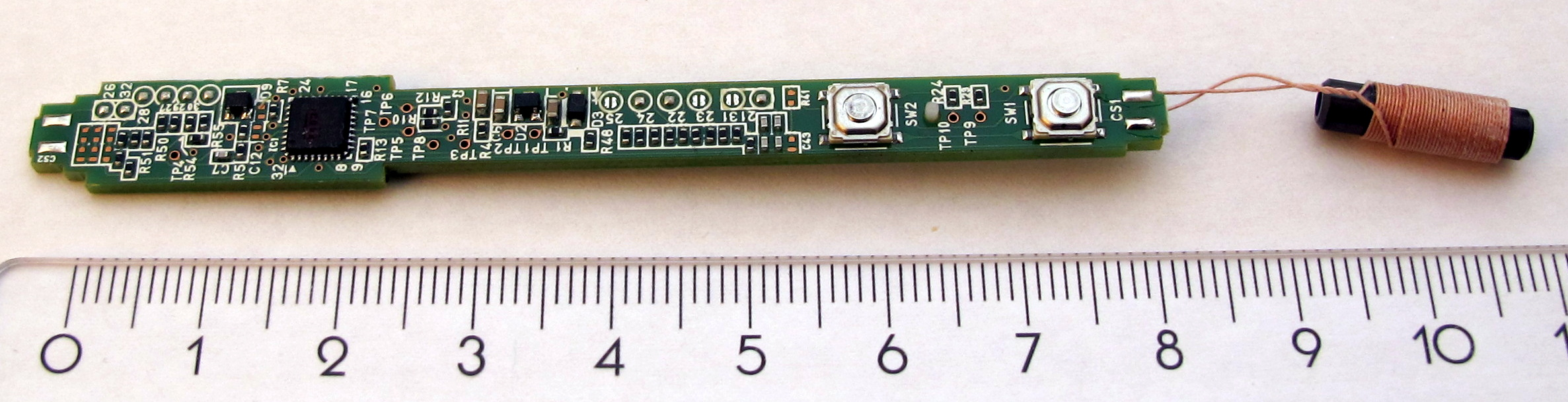 Electronic PCB with microcontroller, two push buttons and inductor coil for RFID communication link to the graphics tablet. Pen electronic is from a Wacom tablet CTL480. Pen case and capacitive sensor for the tip sensor removed